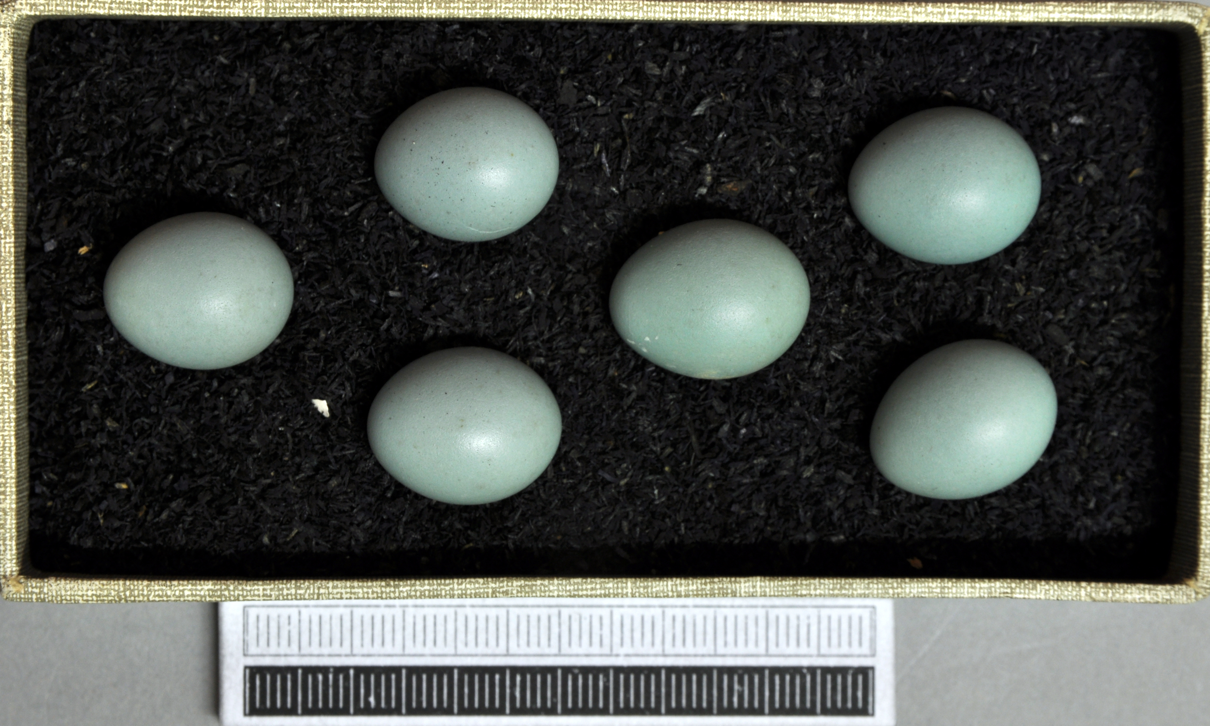 Whinchat Saxicola rubetra , egg, Coll. Museum Wiesbaden